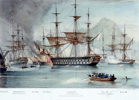 Scipion, Dartmouth and Brisk at the Battle of Navarino, 20 October 1827